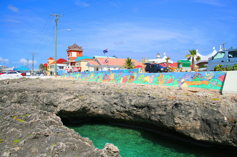 Flickr Description: Old one that i found... Taken by Harbour House on the Waterfront. The orange tower in the distance is the Harley Davidson Shop as well as Harvey's Restaurant.